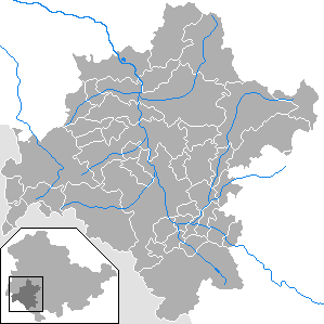 Municipalities in District Schmalkalden-Meiningen, Thuringia